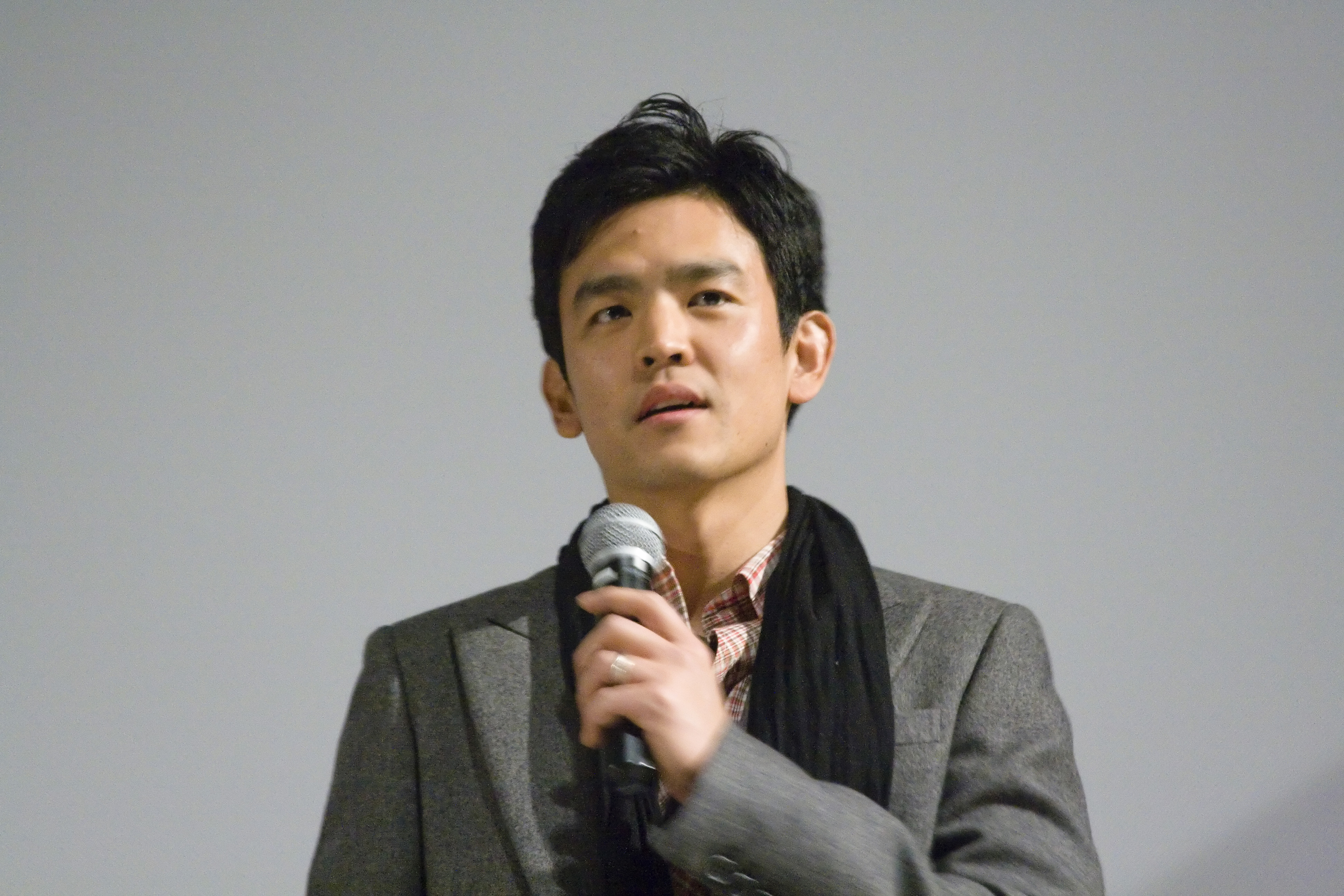 John Cho promoting H&K2